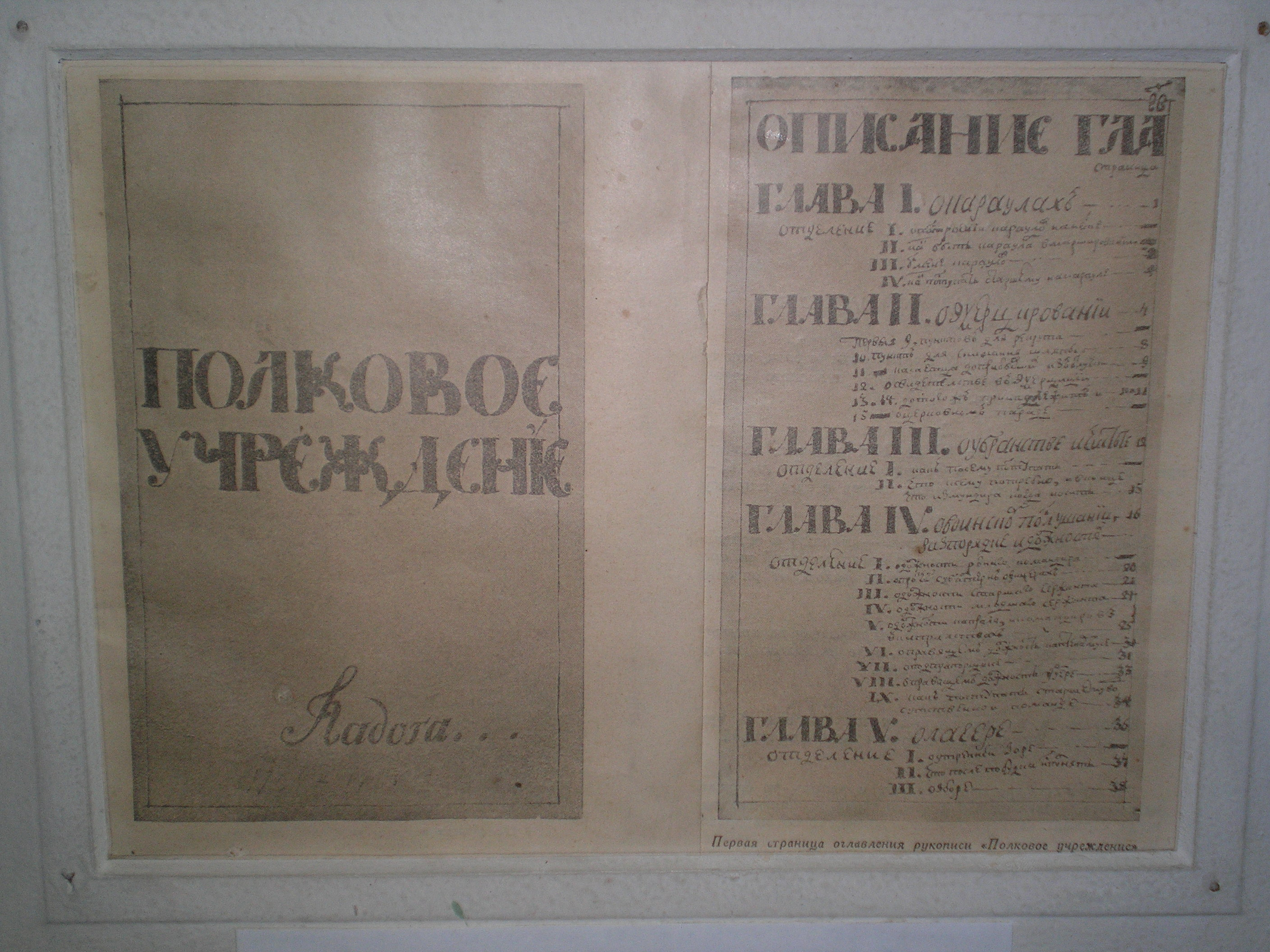 Composition of Suvorov